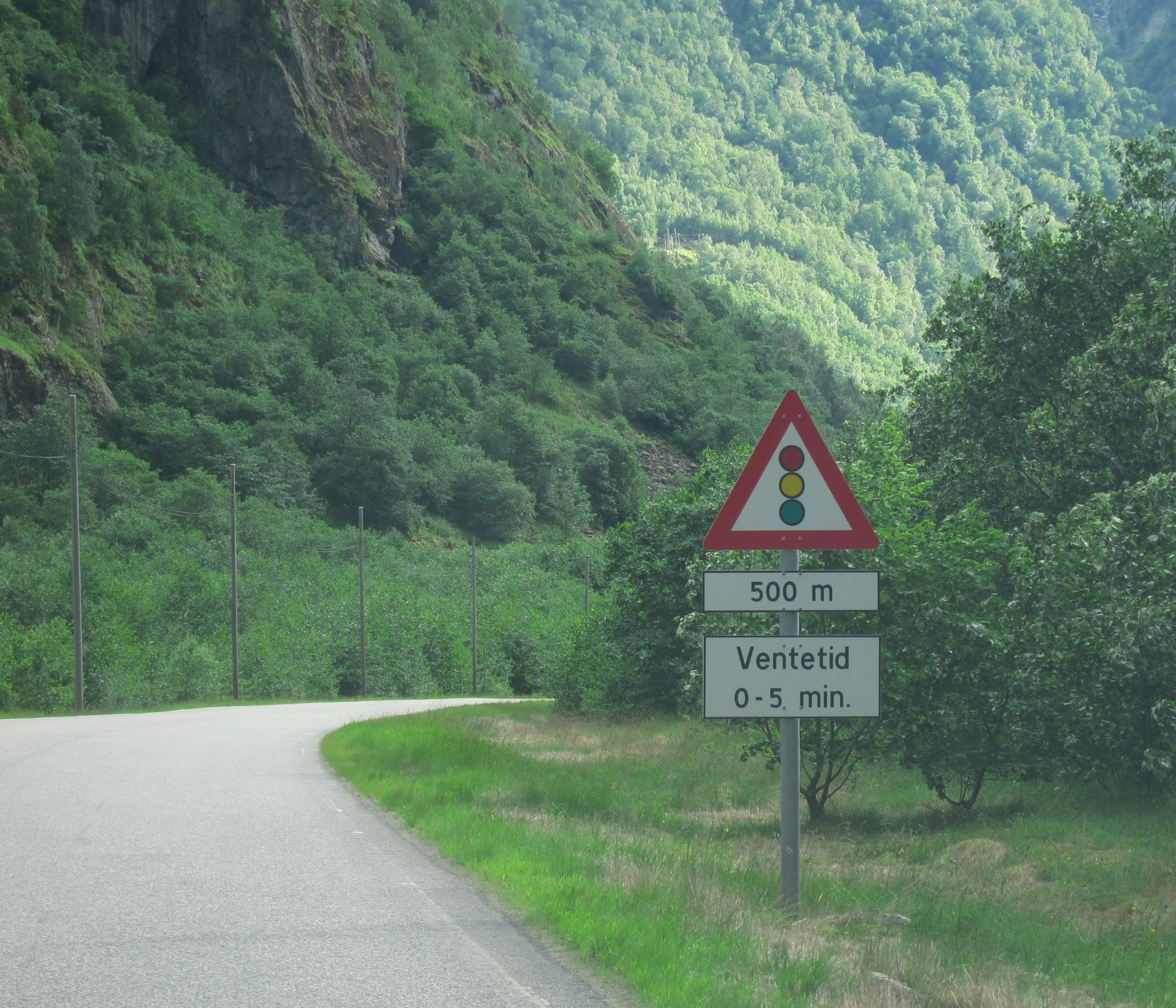 Fylkesveg 50 (county road 50), Låvisberget section regulated by light due to narrow road, Aurland, Norway